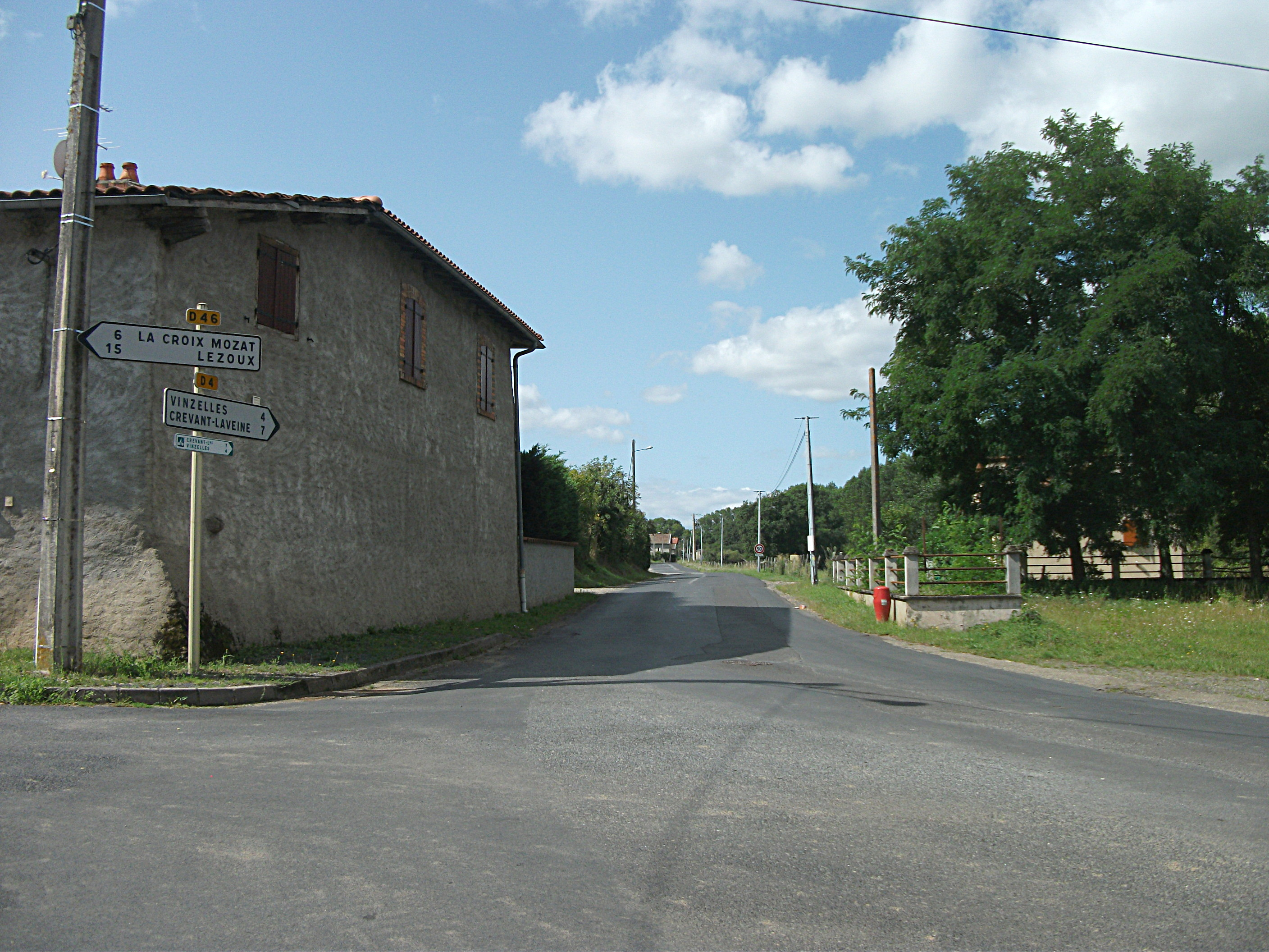 Departmental road 4 towards Vinzelles, in Charnat, Puy-de-Dôme, Auvergne-Rhône-Alpes, France. [15118]